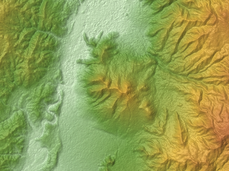 Mount Takayashiro (Takayashiro-yama) in Nagano Prefecture, Honshu, Japan.